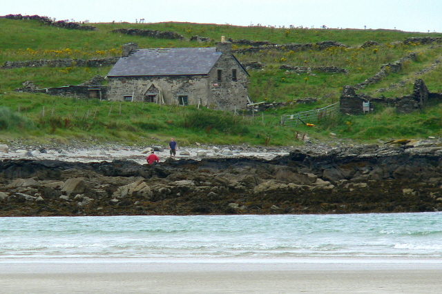 Building at SE end of Inishkeel Island View if from beach at Naran. Some people walk out to the SE end of Inishkeel Island when the tide is out. I couldn't tell if the tide was coming in or going out. Note that two people are out on the island along the SE shore.